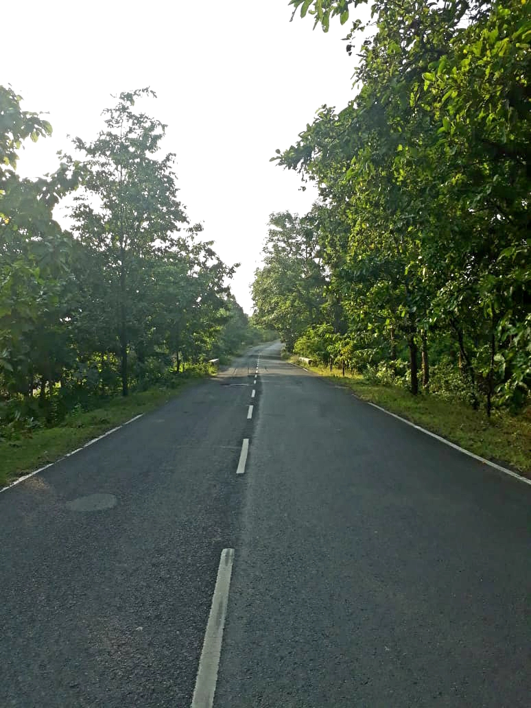 Godda